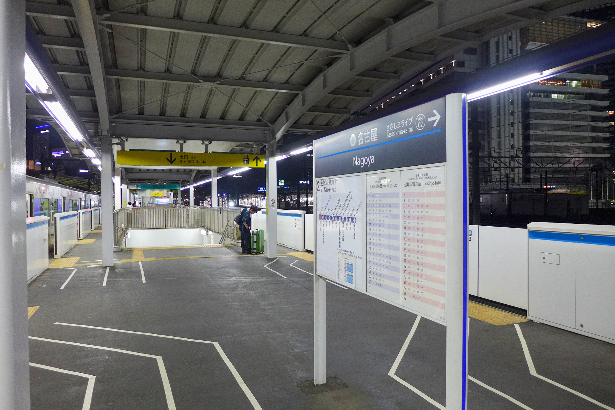 Nagoya Station Aonami Line Platform